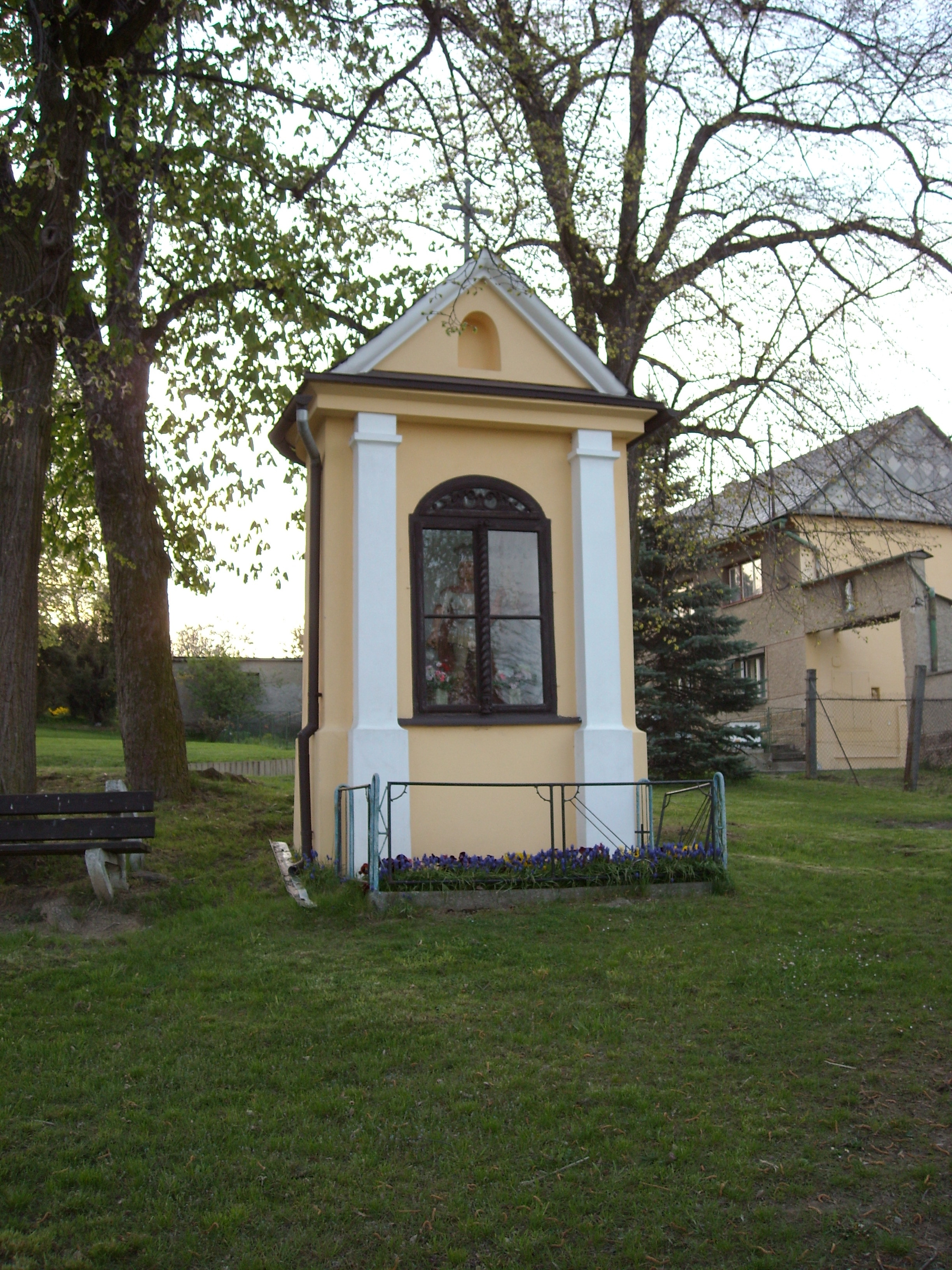 st. Florian chapel